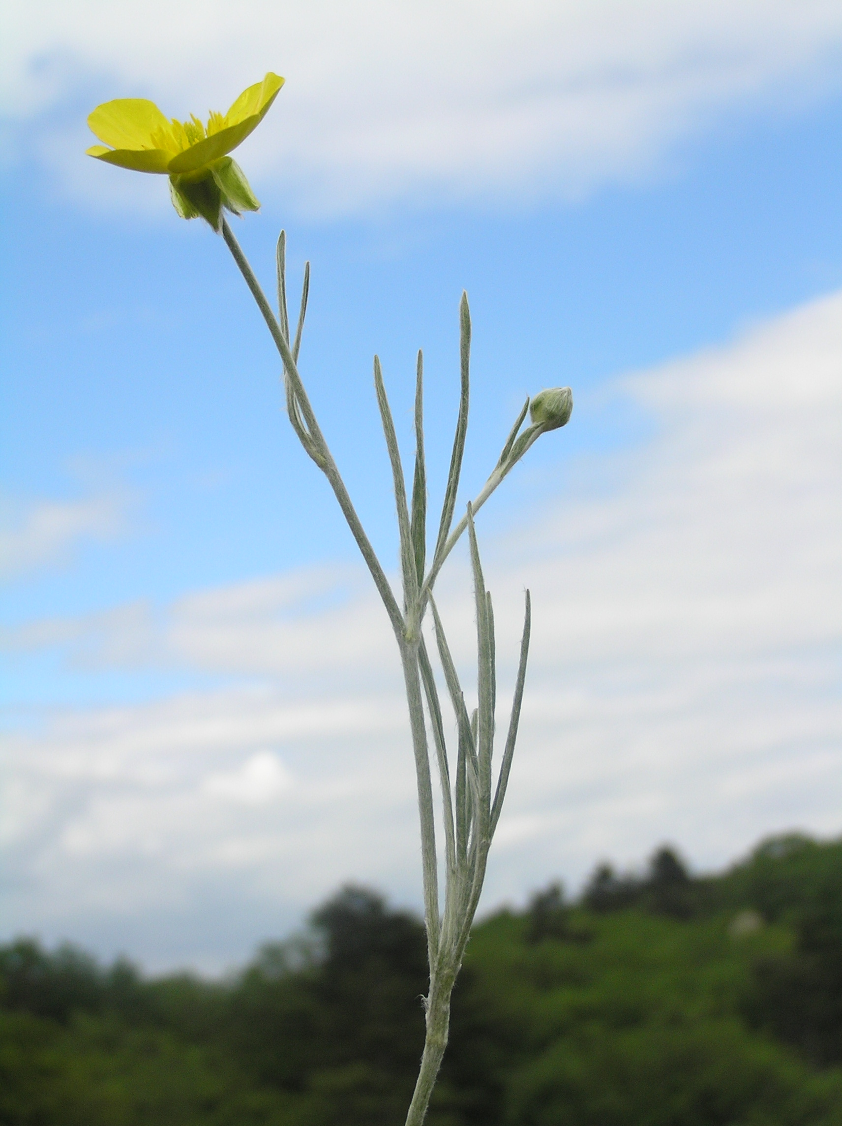 Ranunculus illyricus, Svatý kopeček near Mikulov, Southern Moravia, Czech Republic